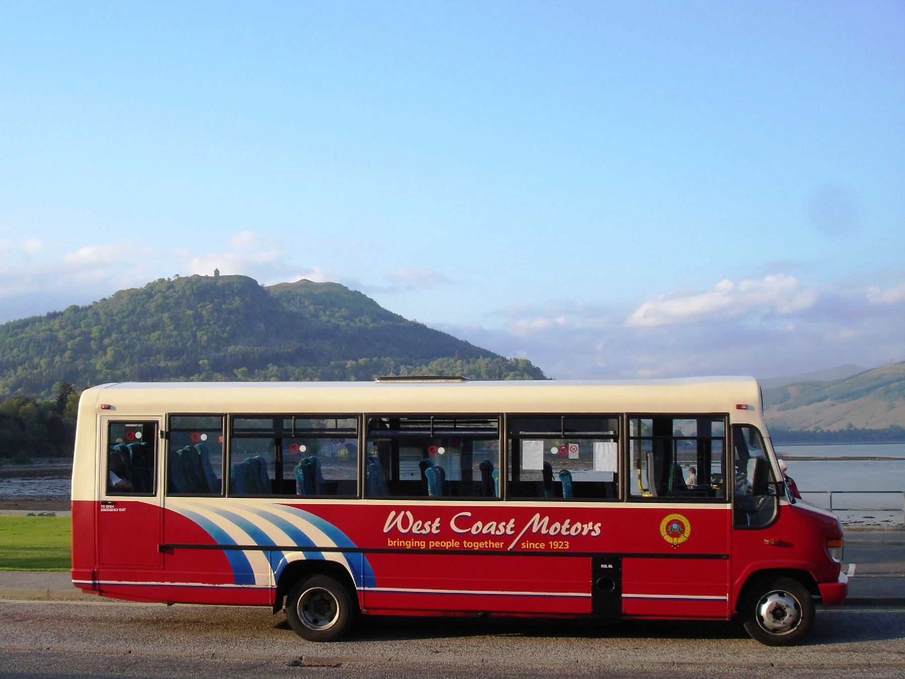 A West Coast Motors Plaxton Beaver 2 bus in Inveraray, the bus is heading for Dunoon.